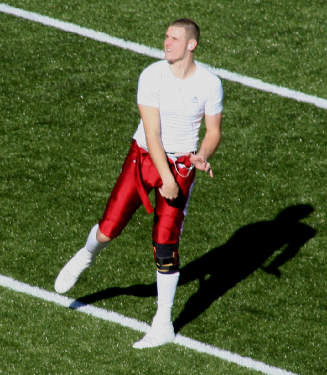 Ryan Mallett warming up before a game on November 7, 2009.